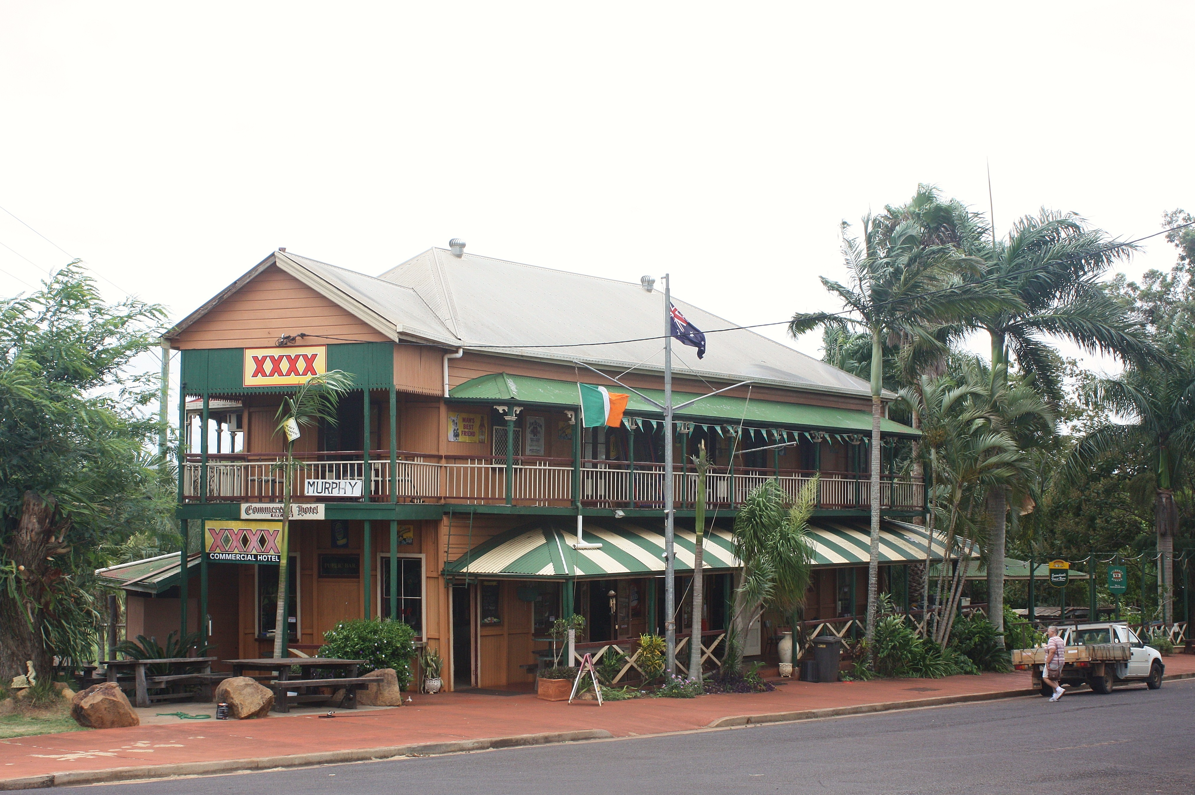 Queen Street, Cordalba. While we went in, there was no one around, and we missed Cordalba's star attraction: "In the heart of sugar cane plantation country, 13km north-west of Childers and 40km south of Bundaberg, is the quaint town of Cordalba. The subject of an artist's attention still keeps watch over the public bar of the local pub. When fully clothed, the model, Maude Sheehan, once actually ran the place. Maude was amply built and famous for her fiery red hair, which matched an easily aroused temper. Legend has it that on one occasion Maude kicked off a troublemaker, who returned the following day, this time riding his horse into the bar. Incensed at the intrusion, Maude punched the horse between the eyes, bringing both horse and rider to the floor. Maude's nude portrait hangs alongside a rare early Marilyn Monroe poster, which was retrieved from the town's rubbish dump. It is worth making a deviation off the Isis Highway. Apart from the 'cultural' experience at the hotel, the whole town is an attraction in itself. These days, there is just the one hotel, whereas in the 1970s Cordalba had seven, prior to a 'spate of bad luck' with fire." From